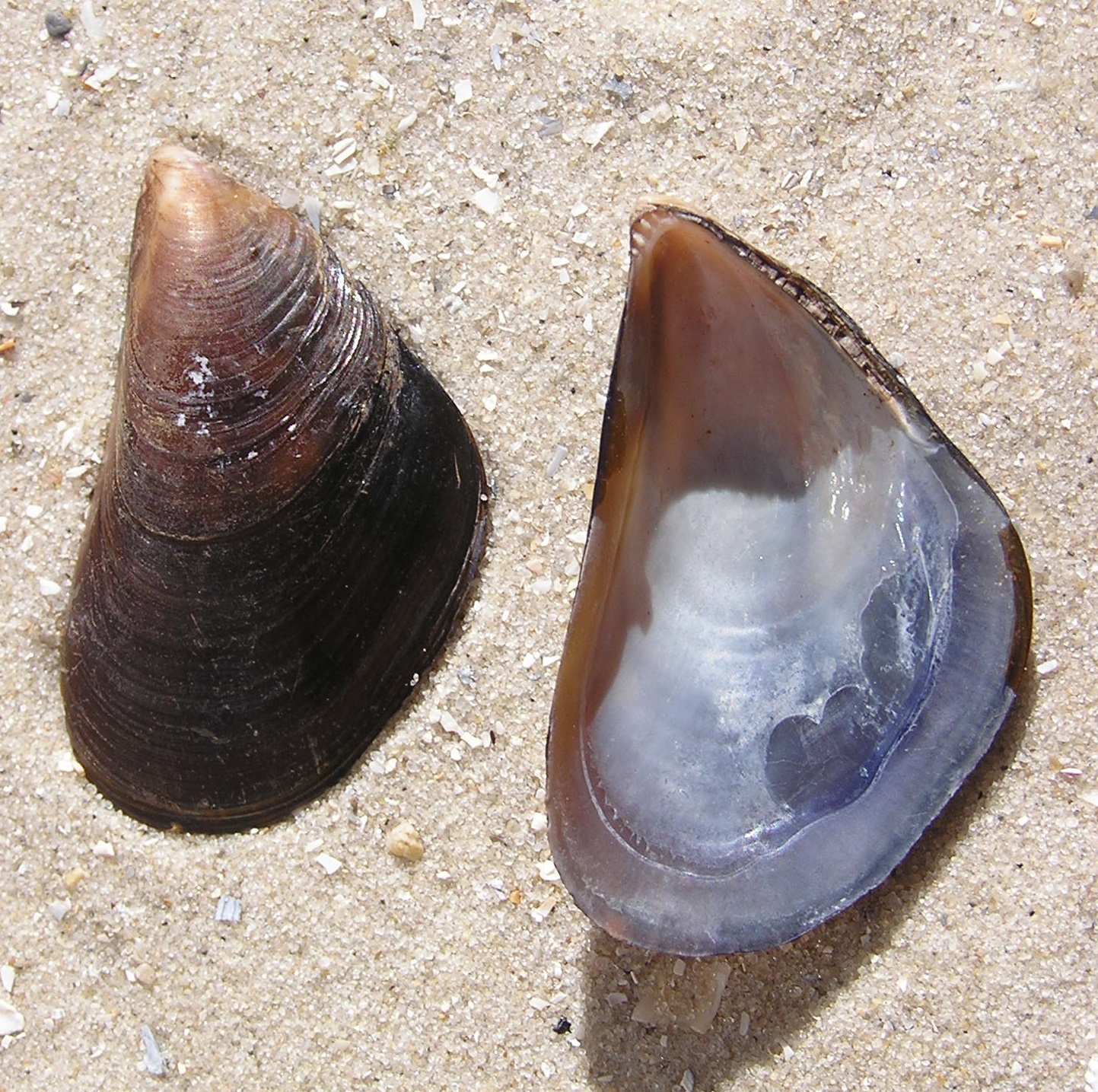 Mediterranean mussel (Mytilus galloprovincialis) shell.